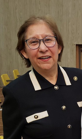 Anna Maria Farias, Assistant Secretary of HUD on July 12, 2019 in Houston, Texas.